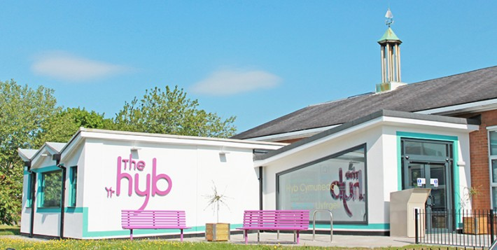 The new Fairwater hub.